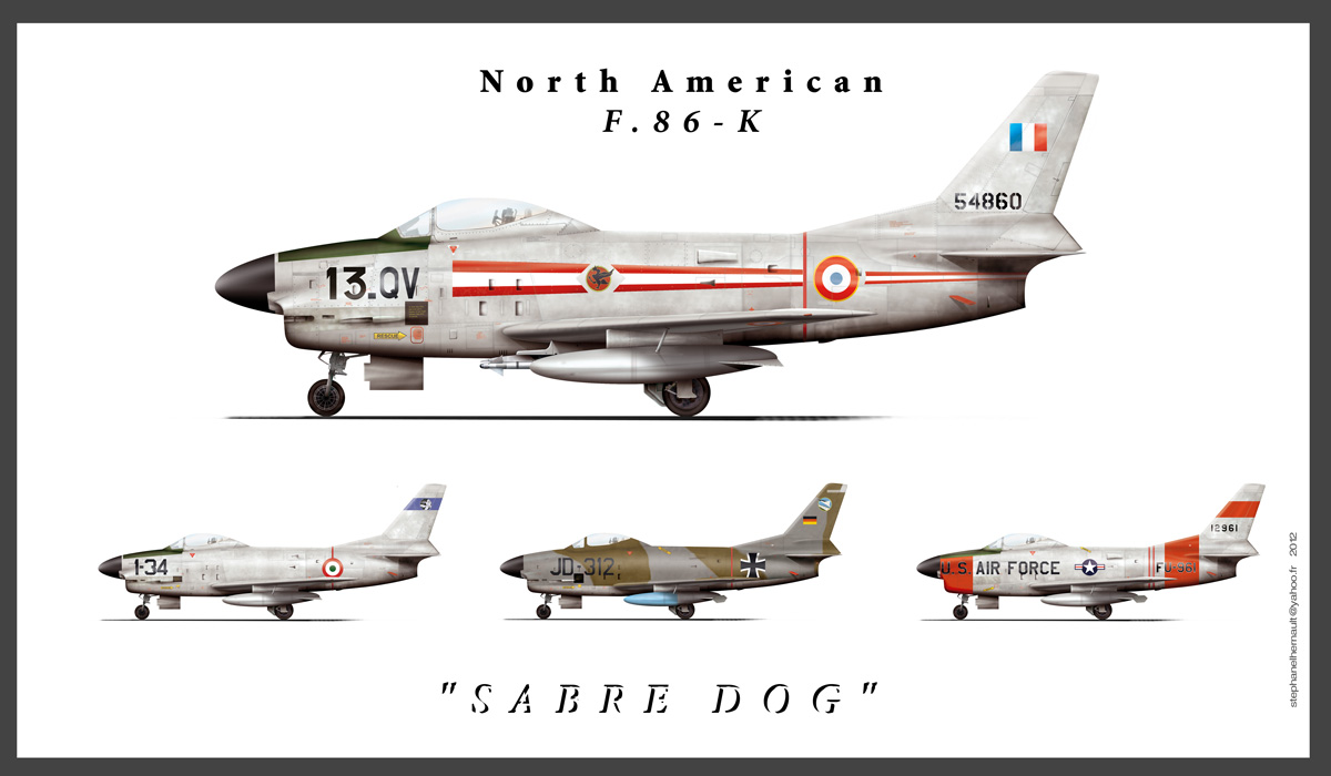 North American F86 French Italian german and US liveries